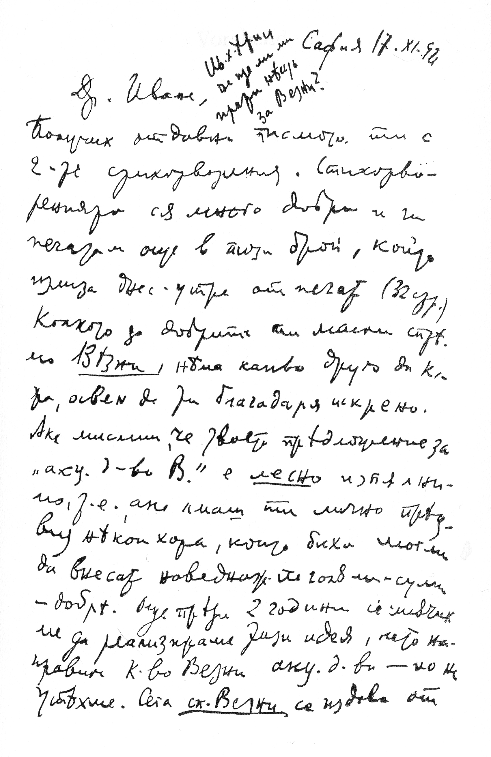 Letter written by Geo Milew (1895-1925)